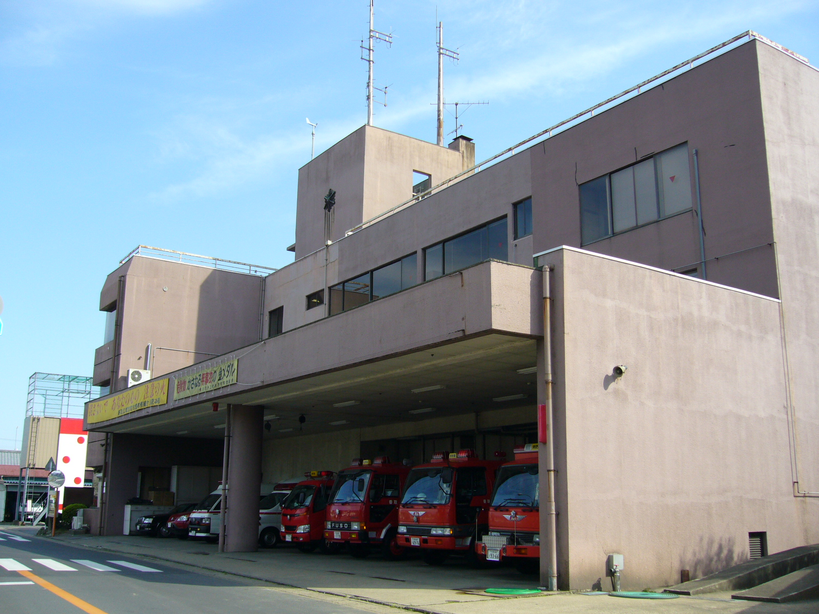 Omigawa fire station, Katori-city, Japan